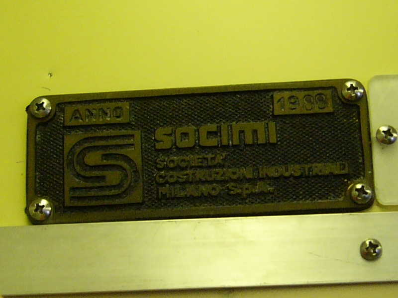 Socimi builder's plate in a type TRA EMU300 rail car, in Japan.